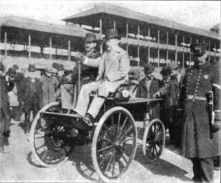 Photo of Henry G. Morris and Pedro G. Salom in their 1894 Electrobat automobile, the first commercially produced electric automobile in the United States. This vehicle was a contender at the 1895 Times-Herald contest. From Outing magazine. From the Google books archive: Title Outing, Volume 51 Published 1908 Original from the University of California Digitized Jan 25, 2008 [1]